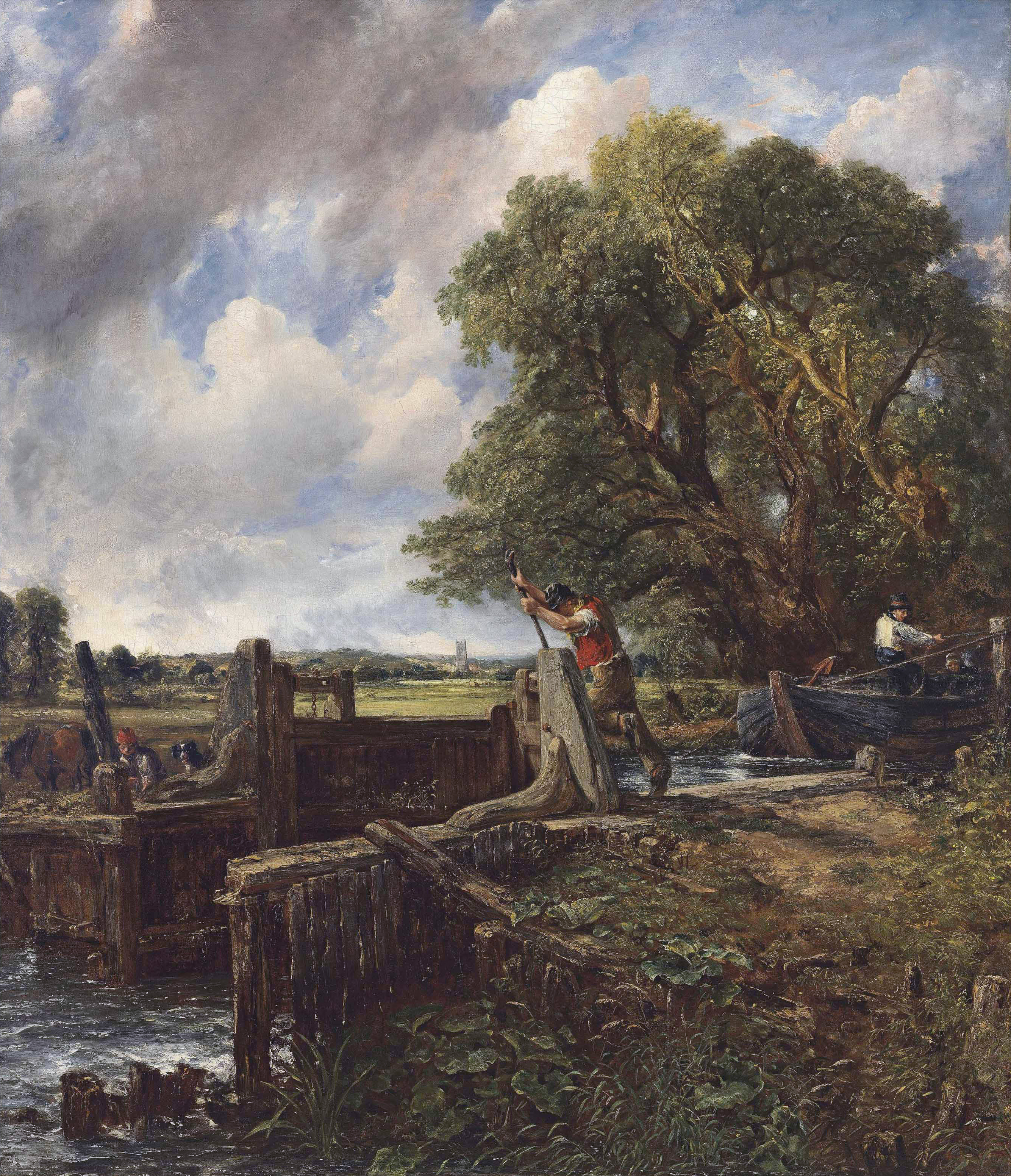 This painting shows the lock at Flatford Mill, on the River Stour in Suffolk